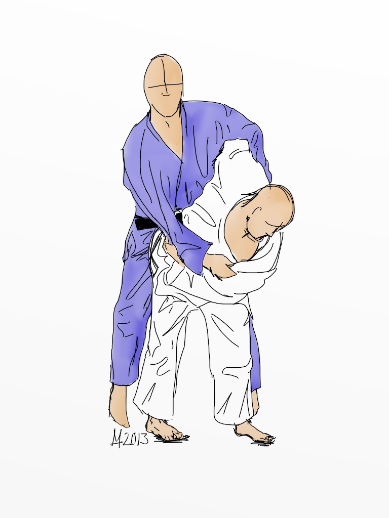 Illustration of the judo throw uki-goshi or floating hip throw, where you twist the opponent over your hip without actually lifting.